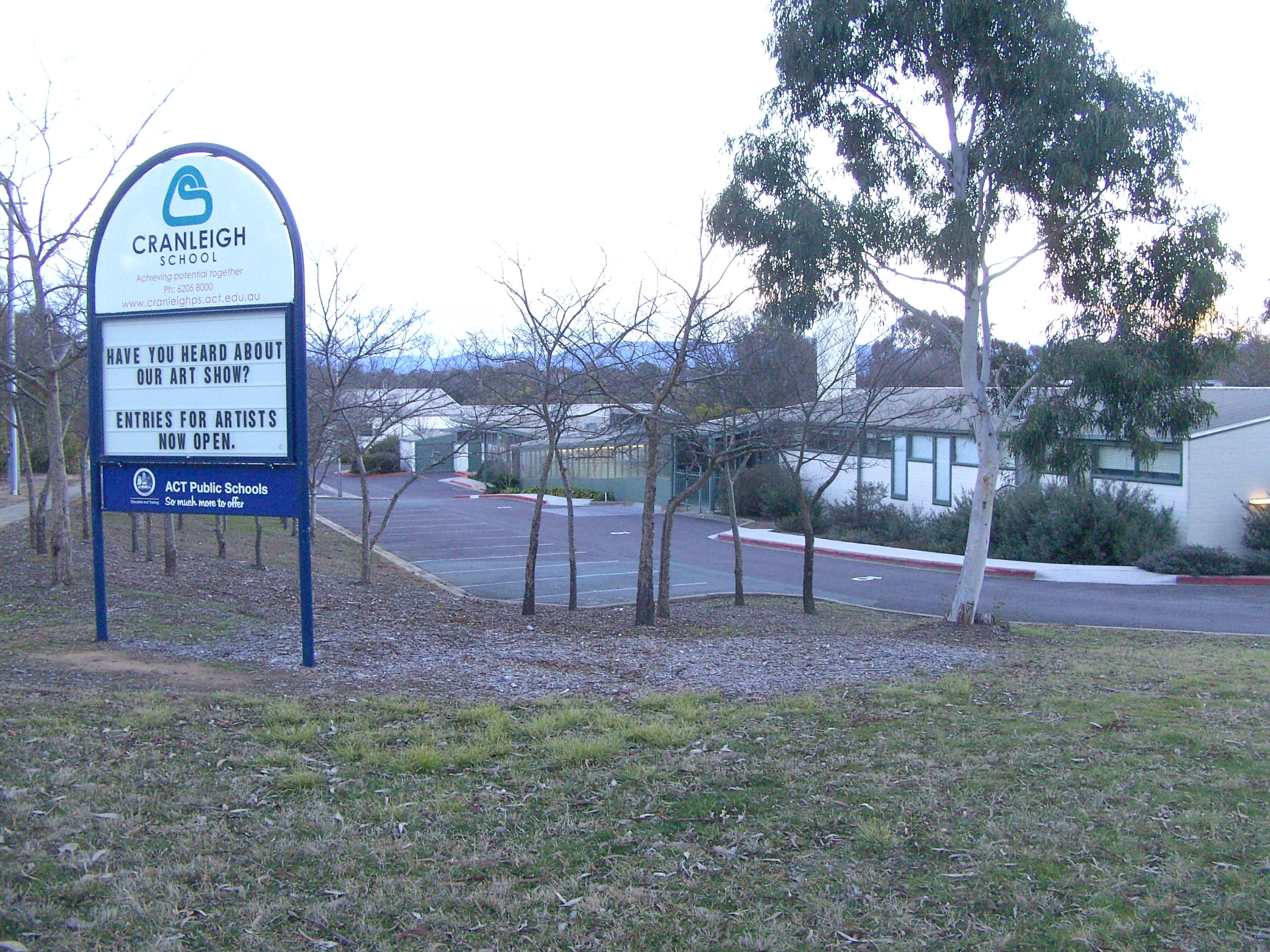 Cranleigh School, Holt, Australian Capital Territory, commemorating the nearby former James_Gordon_Legge#CranleighCranleigh farm of Lieutenant General James Gordon Legge, Latham, Australian Capital Territory.